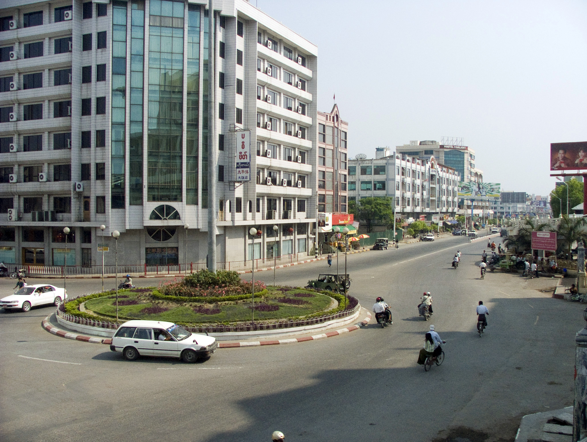 Mandalay, Myanmar